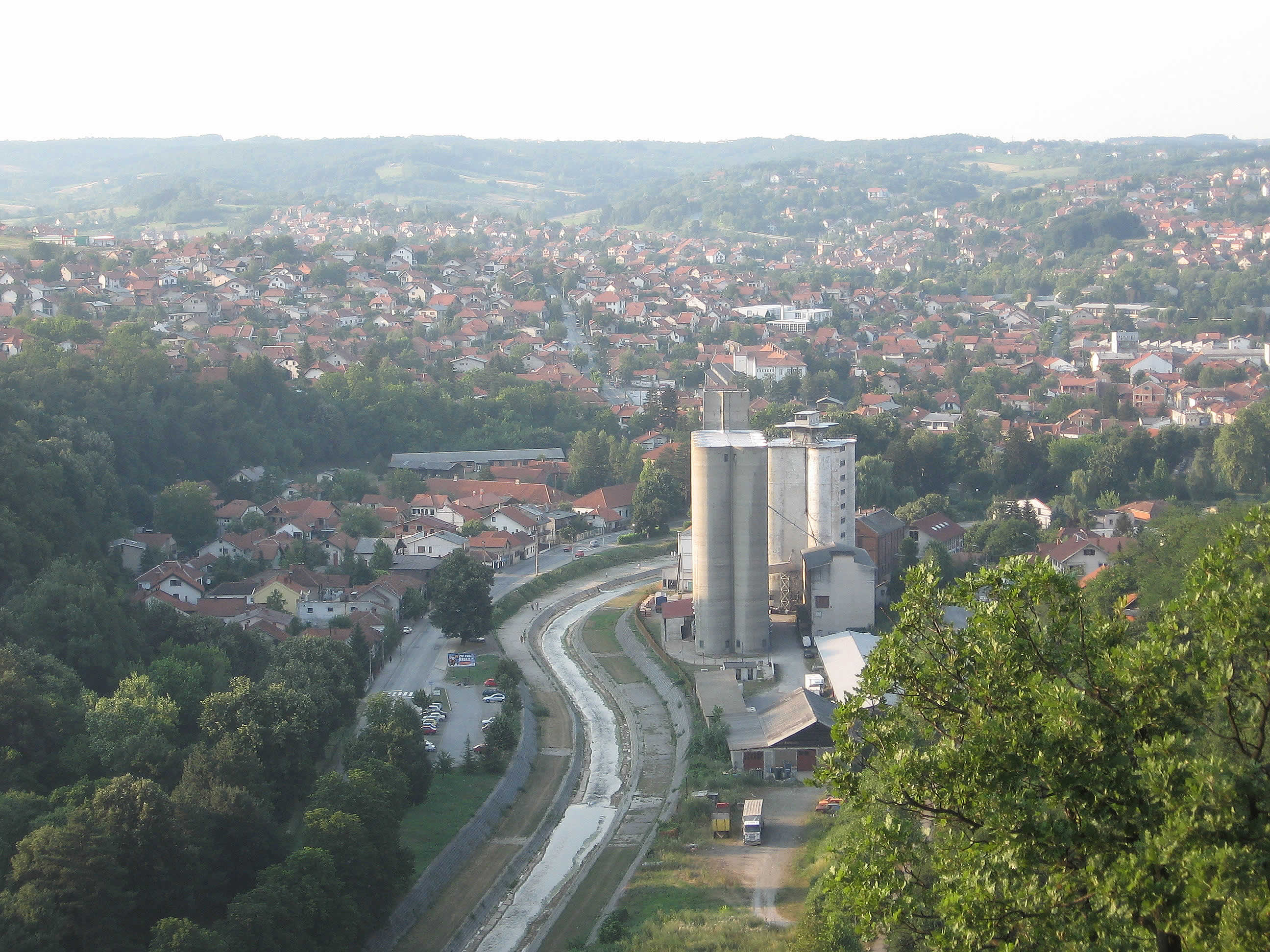 This is a picture of Valjevo, Serbia that is sharper